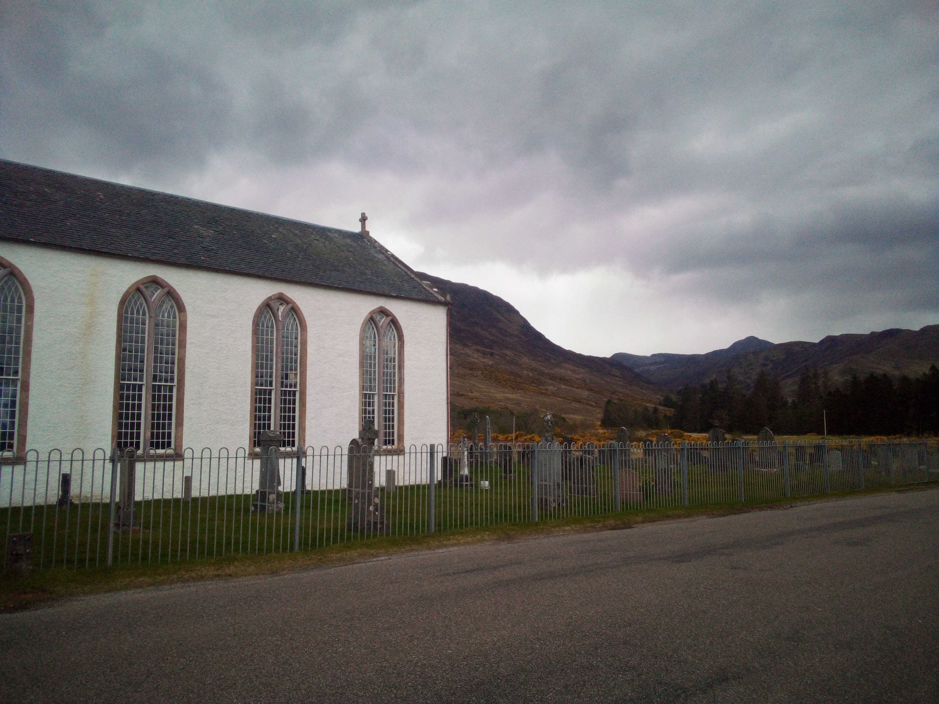 The East Kirk and mountains